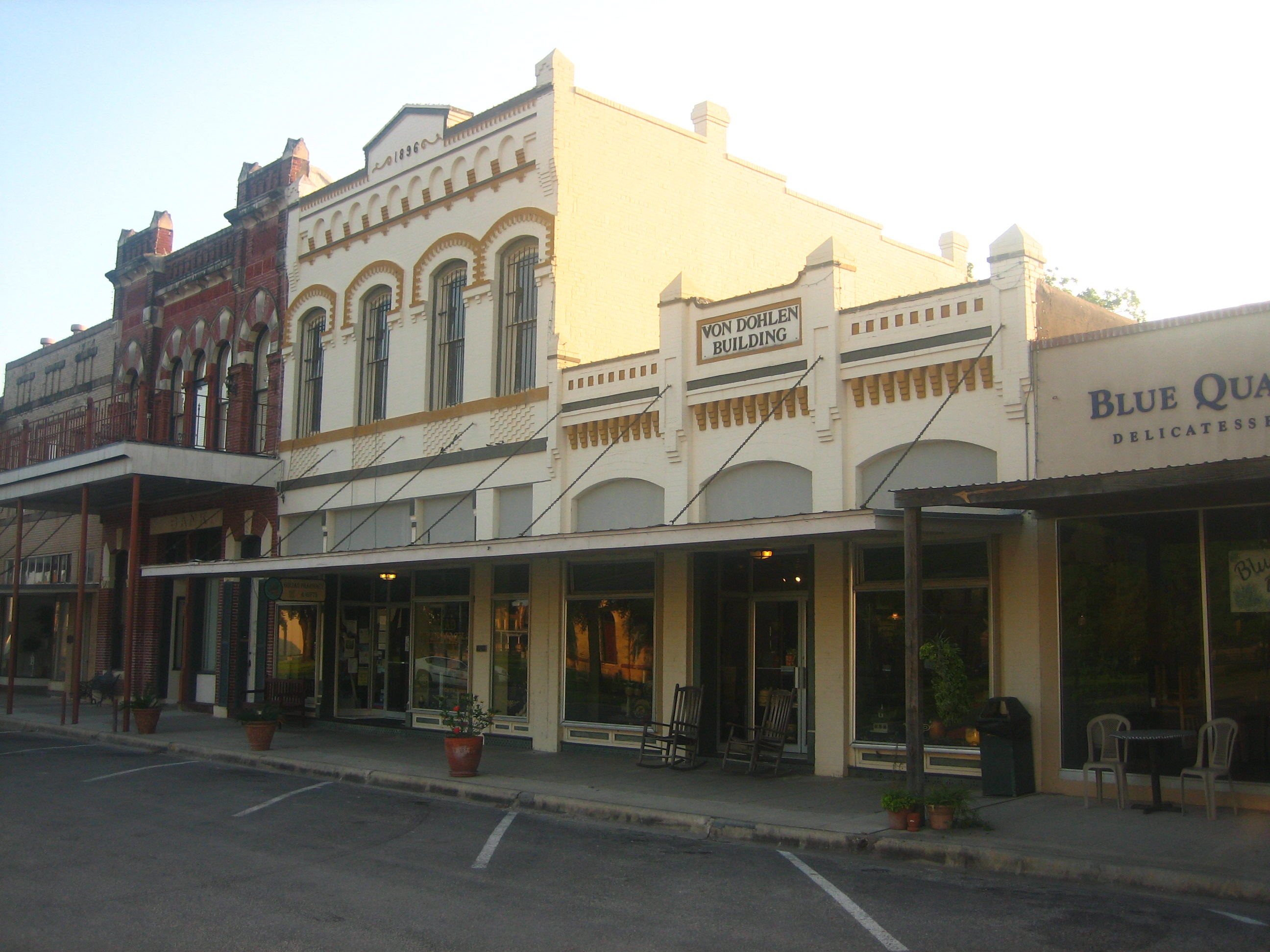 I took photo on July 30, 2008.Billy Hathorn (talk) 02:46, 8 September 2008 (UTC)